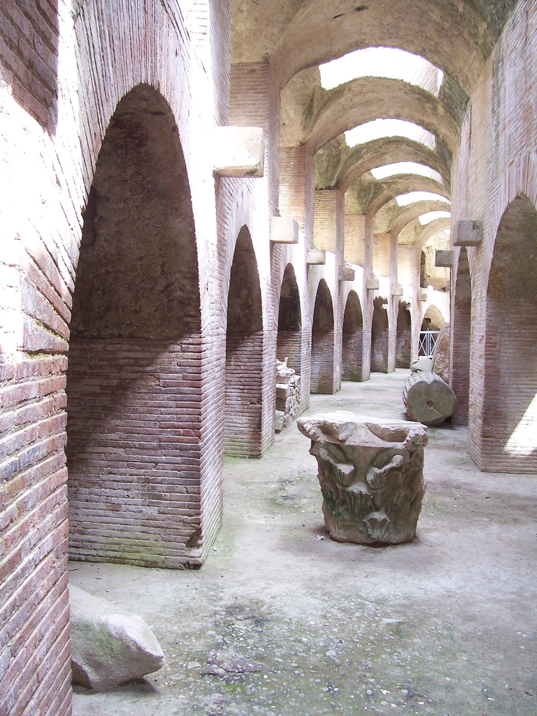 The Flavian Amphitheater (Anfiteatro flaviano puteolano), located in Pozzuoli, is the third largest Roman amphitheater in Italy.